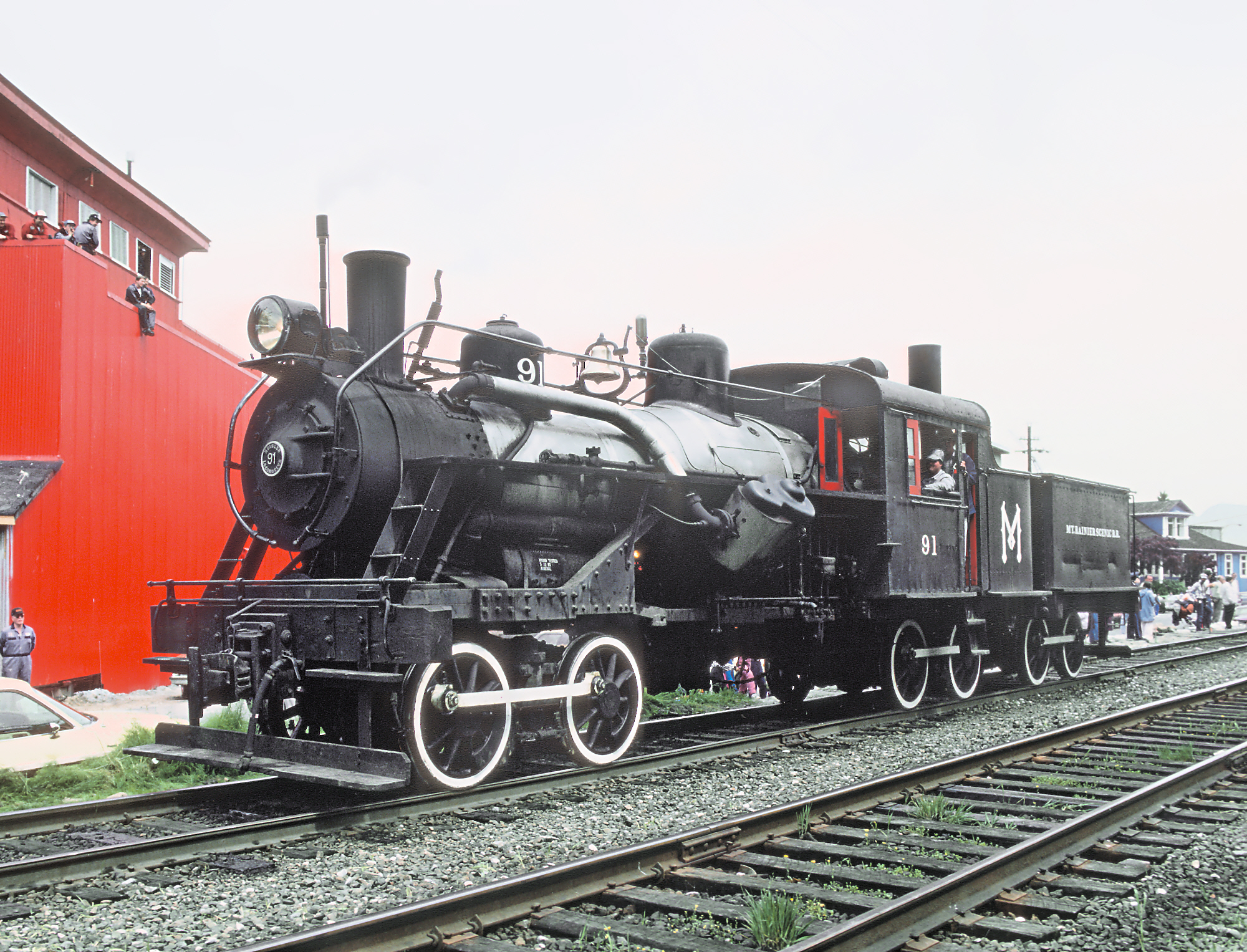 In the Steam Expo Parade of Canadian and U.S. steam locomotives at the 1986 World Exposition on Transportation and Communication (Expo 86), a World's Fair held in Vancouver, BC, Canada. This is one of 17 photos. A Roger Puta Photograph